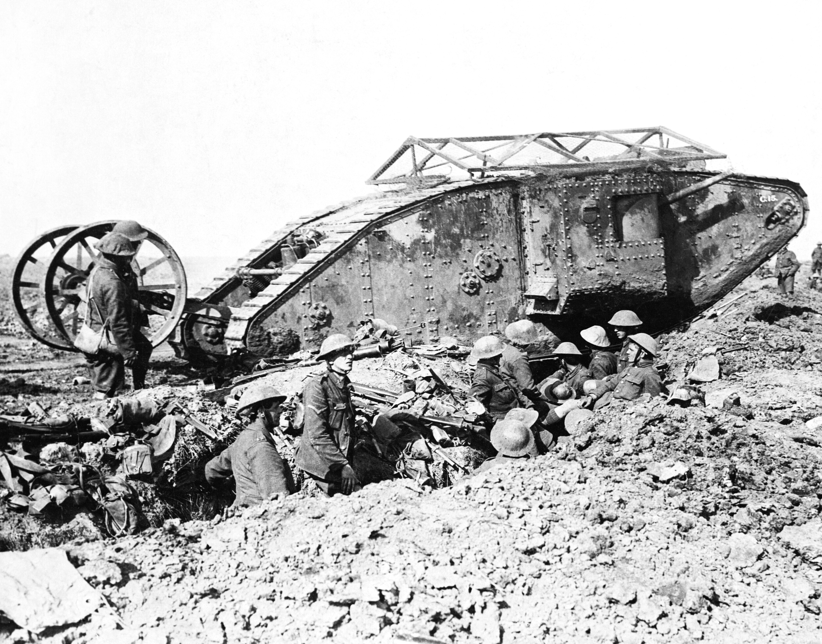 An early model British Mark I "male" tank, named C-15, near Thiepval, 25 September 1916. The tank is probably in reserve for the Battle of Thiepval Ridge which began on 26 September. The tank is fitted with the wire "grenade shield" and steering tail, both features discarded in the next models.